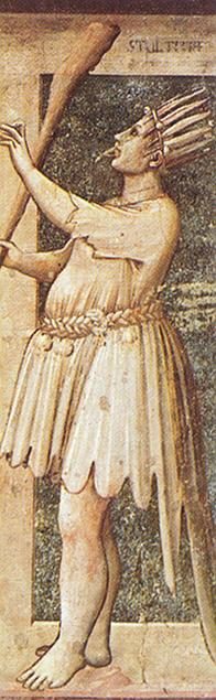 Giotto di Bondone (1267-1337), Cappella Scrovegni (Arena Chapel) a Padova, the Seven Vices: "Foolishness" (Stultitia (not Stupiditas), ca. 1305-1306)